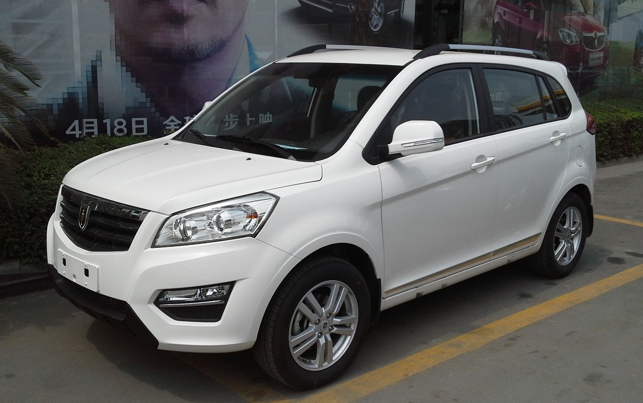 Jinbei S30 photographed in Chengdu, Sichuan province, China.